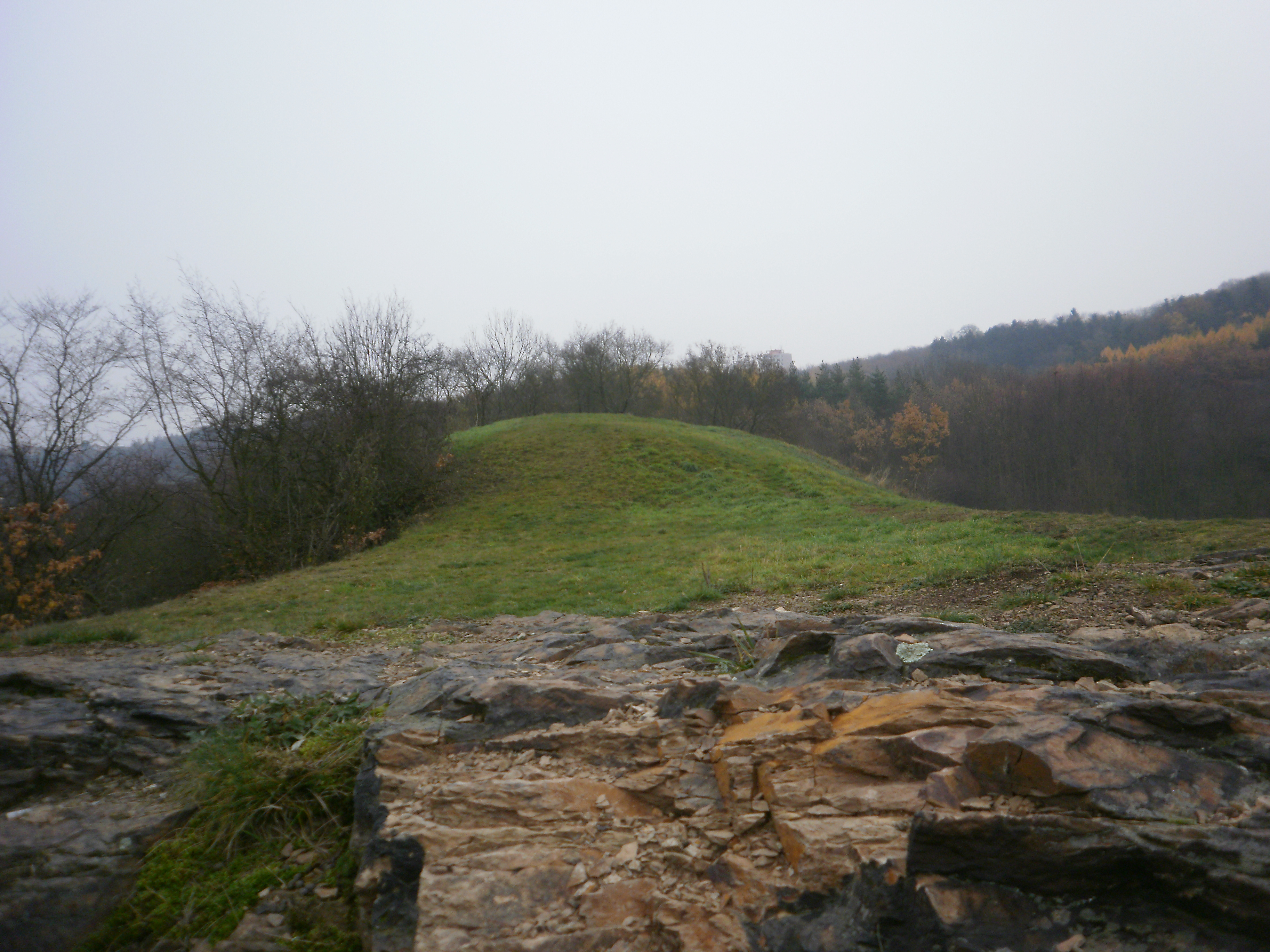 Natural monument Jenerálka in Prague, Czech Republic